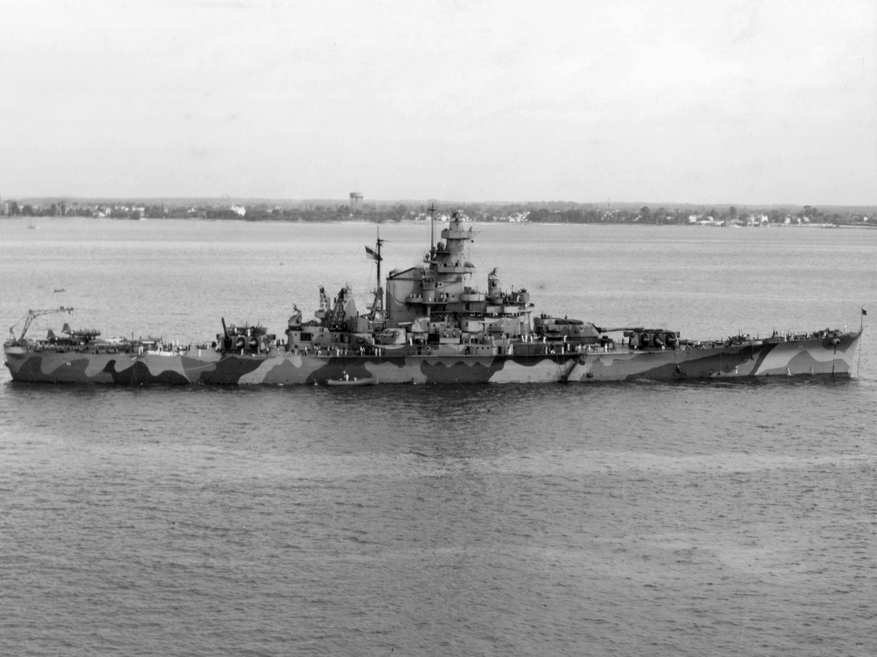 The U.S. Navy battleship USS Indiana (BB-58) on 8 September 1942 at Hampton Roads, Virginia (USA). The ship still had not yet sailed on her shakedown cruise.